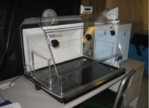 Nanomaterial containment hood adapted from a ventilated pharmaceutical balance enclosure.